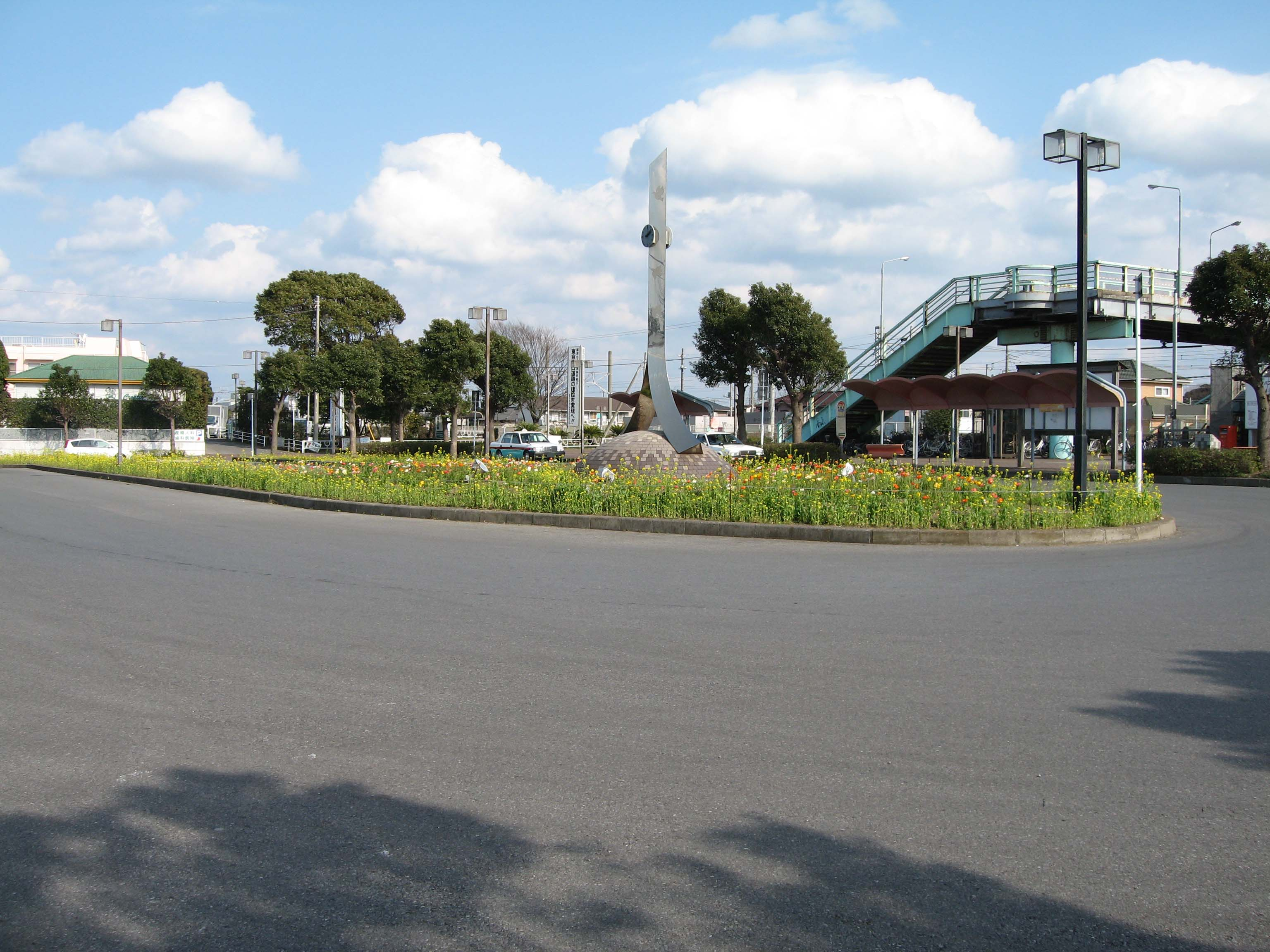 Aohori Station, Uchibo Line, Chiba, Japan, 青堀駅駅前ロータリー